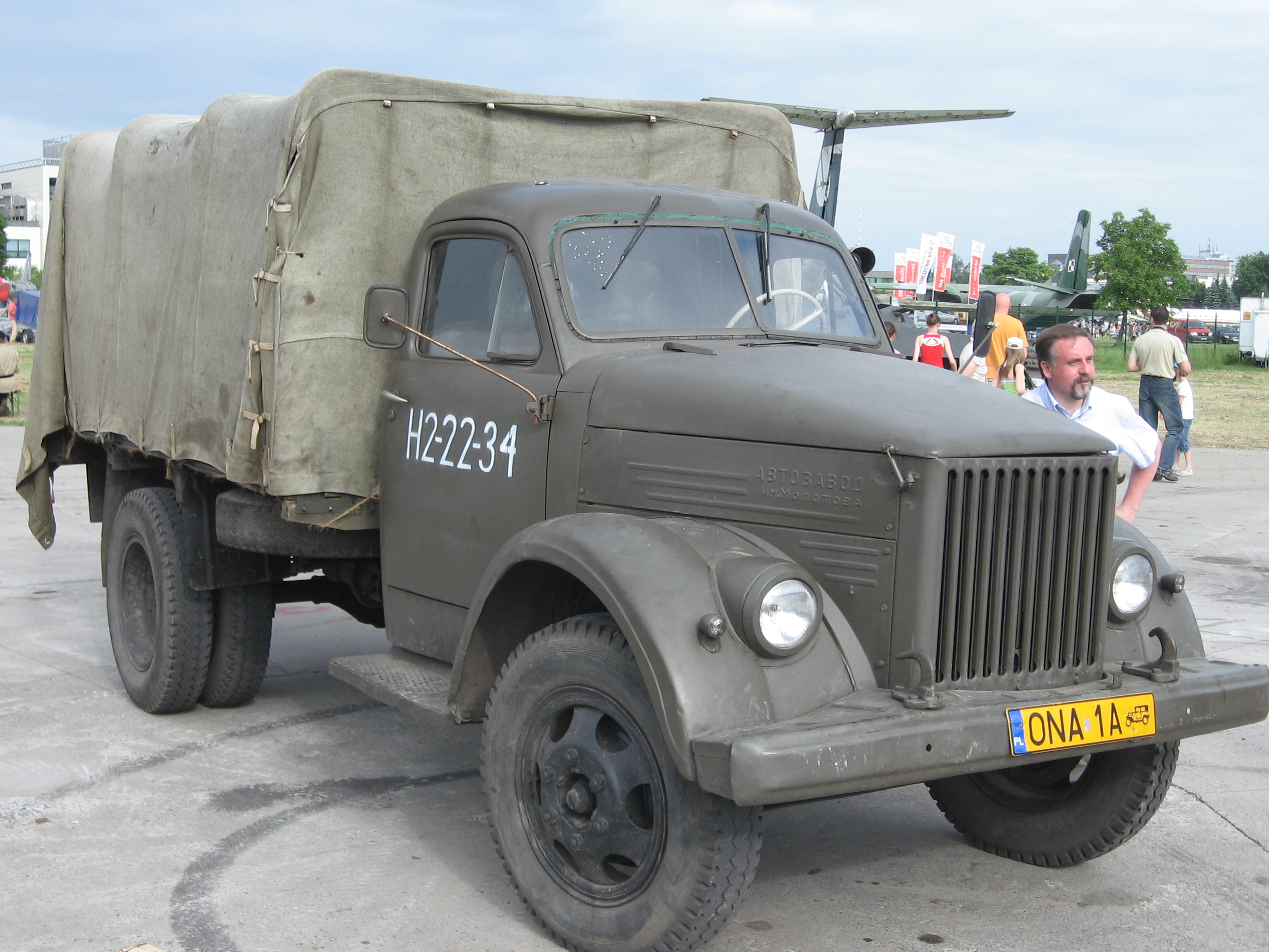 GAZ-51 during the VII Aircraft Picnic in Kraków.